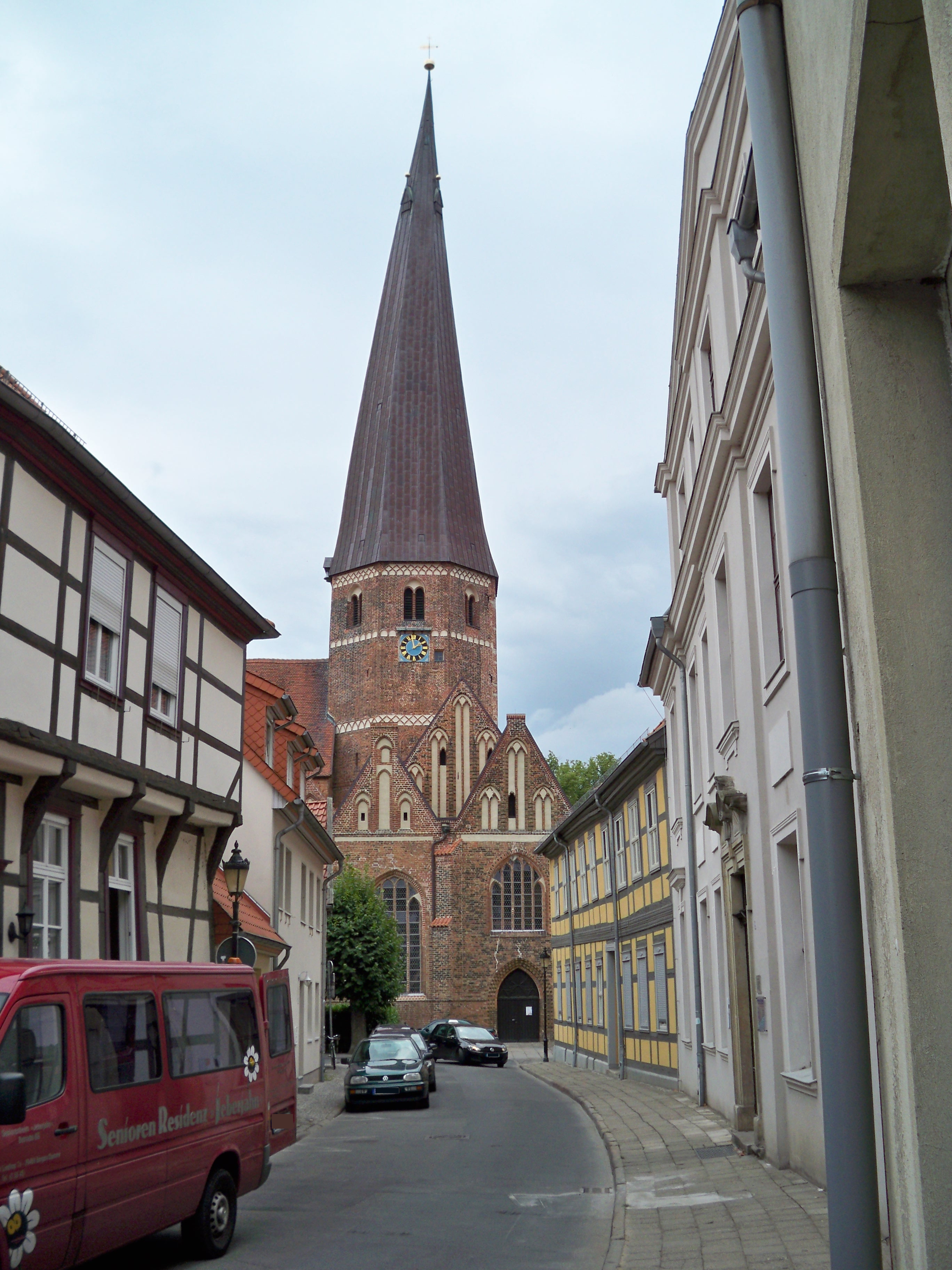 Marienkirche in Salzwedel, seen from north (Jenny-Marx-Straße)